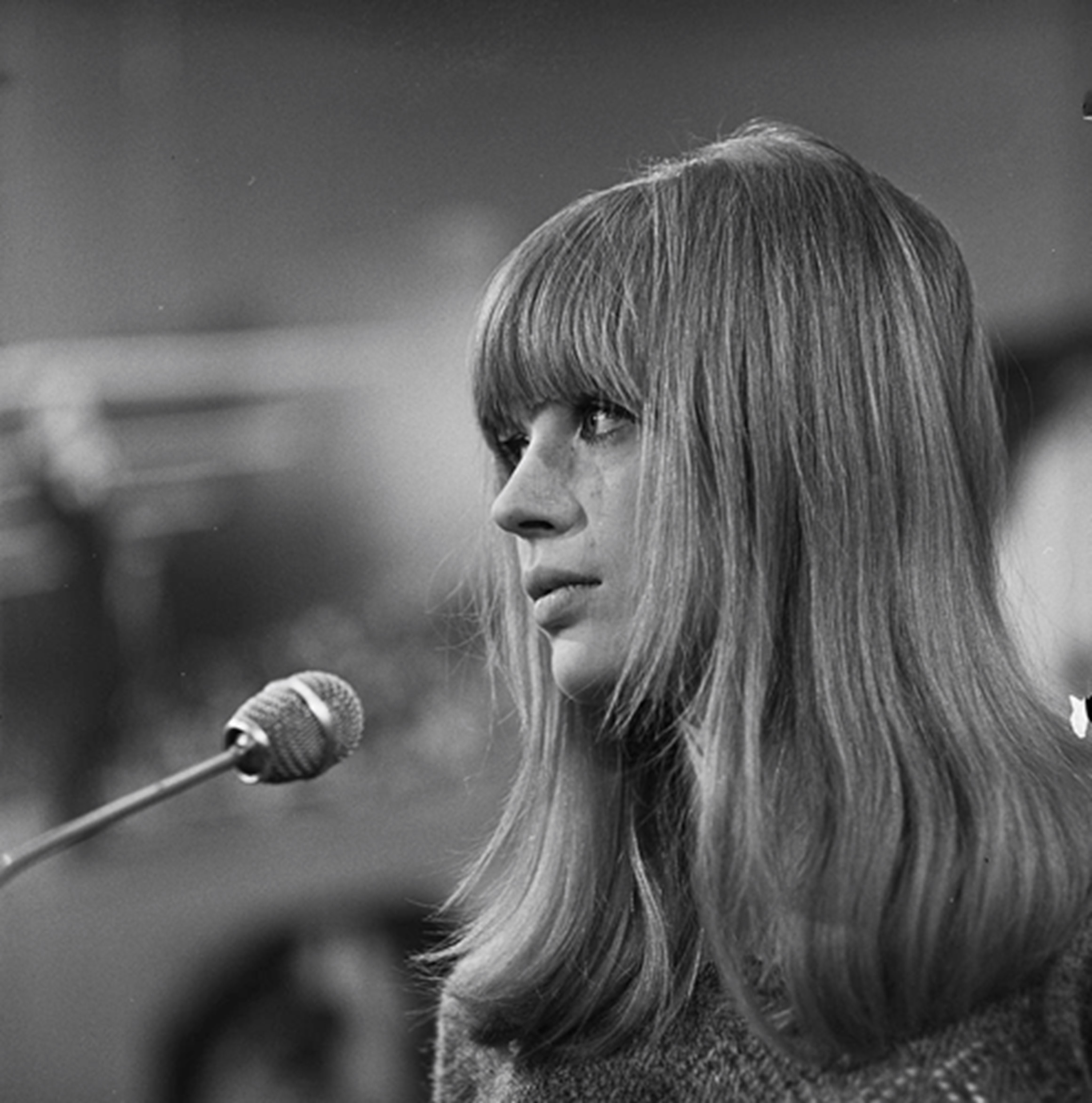 Marianne Faithfull singing "This little bird", "Yesterday", "Summer nights" and "As Tears go by" in Dutch TV programme Fanclub, 11 March 1966